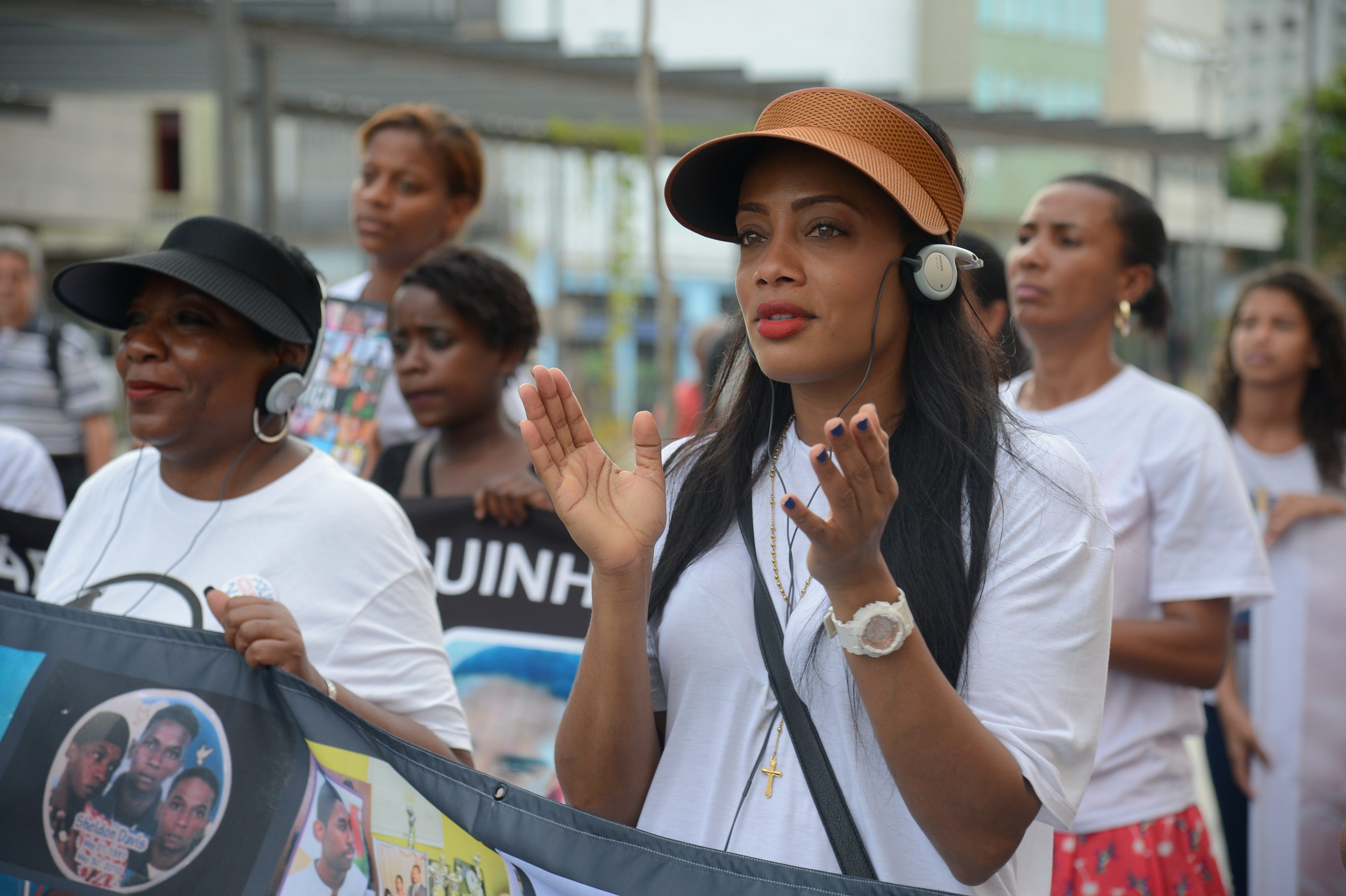 US-born Marion Gray-Hopkins and Jamaican Shackelia Jackson, mother and sister of black youths killed by police, protest with Brazilians in Rio de Janeiro.